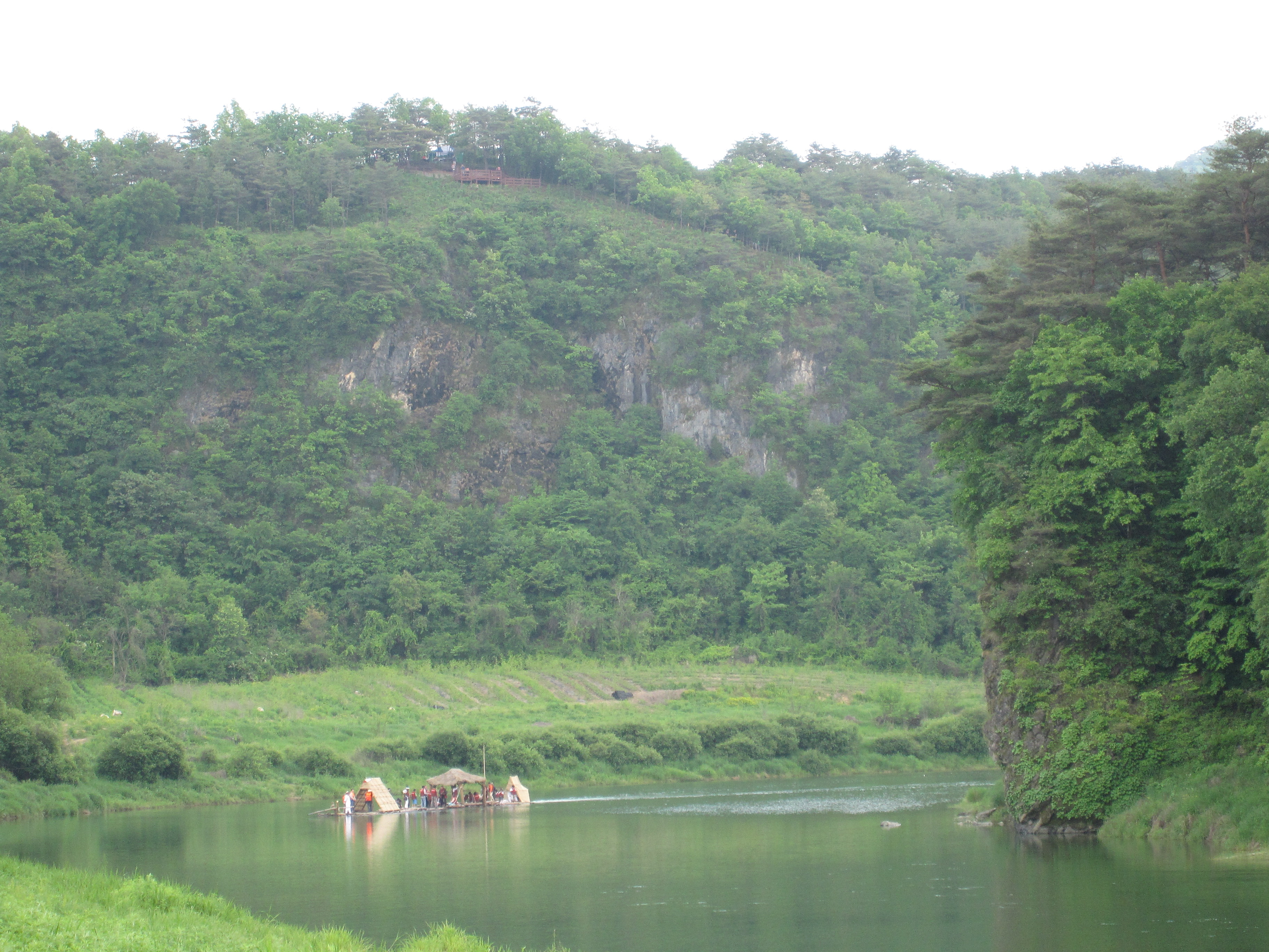 Yeongwol-gun in scenic Gangwon Province is grabbing local and foreign tourists’ attention with traditional rafting. Hop on a traditional wooden raft and enjoy the beautiful view of Hanbando-myeon, which looks very similar to the map of Korea. Hanbando-myeon has been designated a traditional theme village by the Rural Development Administration and is providing a variety of hands-on experiences: crossing the river by hand-pulled cable ferry, exploring, sending postcards to Dokdo and so on.